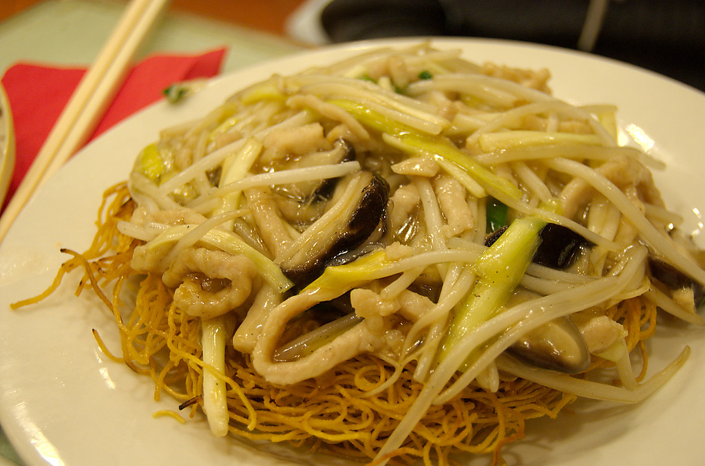 Pork chow mein